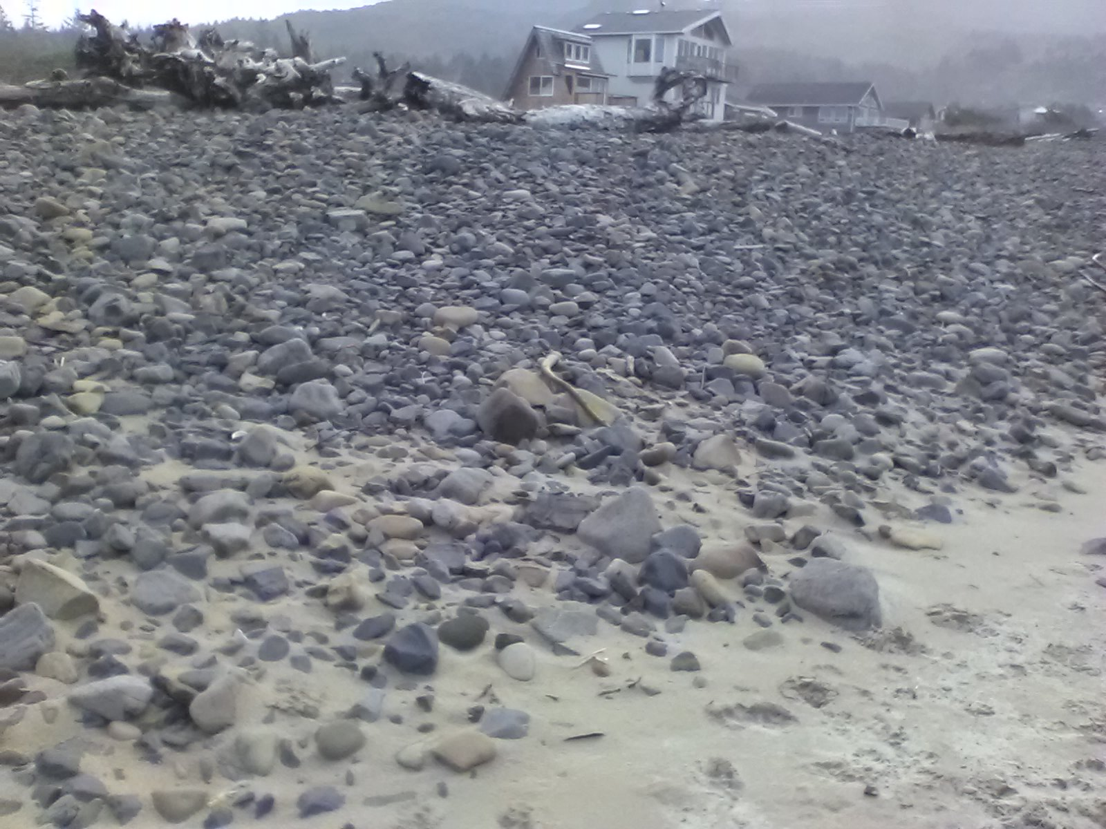 Cobble berm south of Tillamook Bay 2020